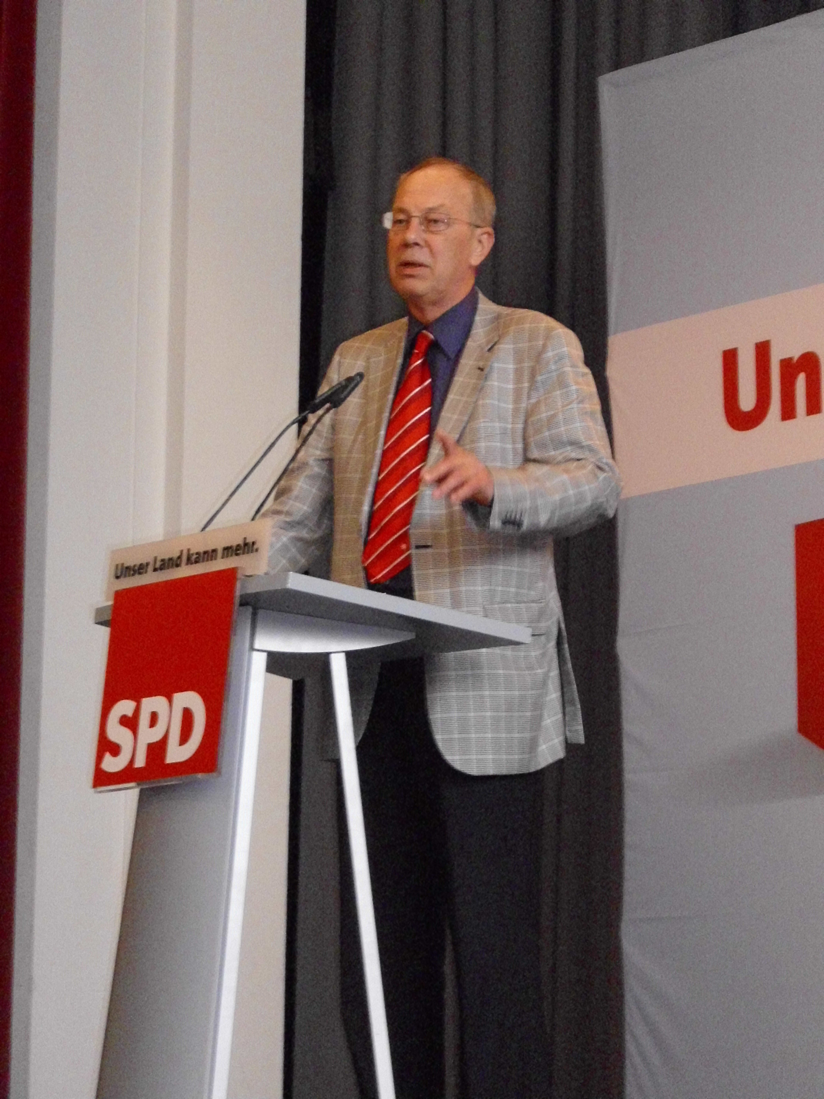 Rüdiger Veit check usage